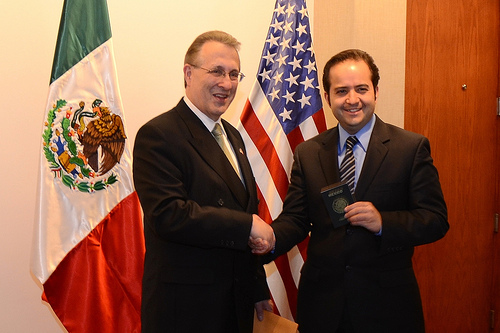 Alejandro Poiré (right) enrolls on the Global Entry Trusted Traveler Program.